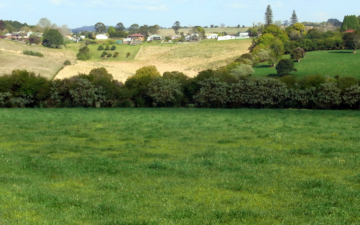 Comboyne NSW, Australia